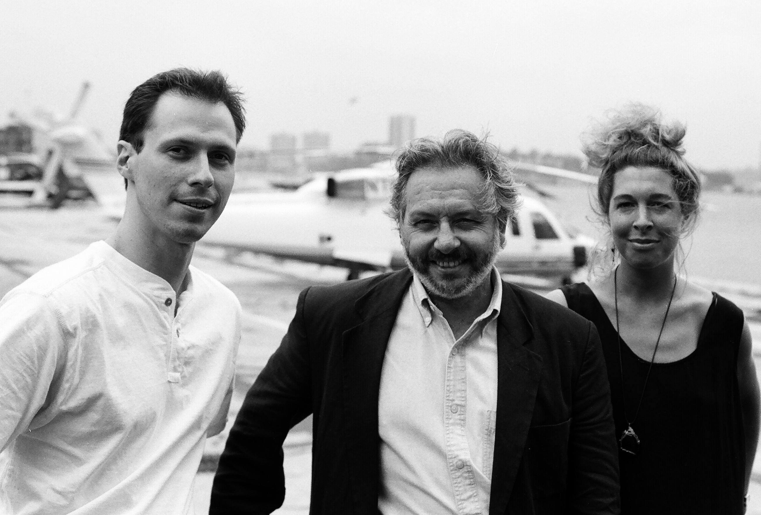 John Bruno, Ray McCort and Jennifer Andrews filming on location in New York at West 30th Heliport